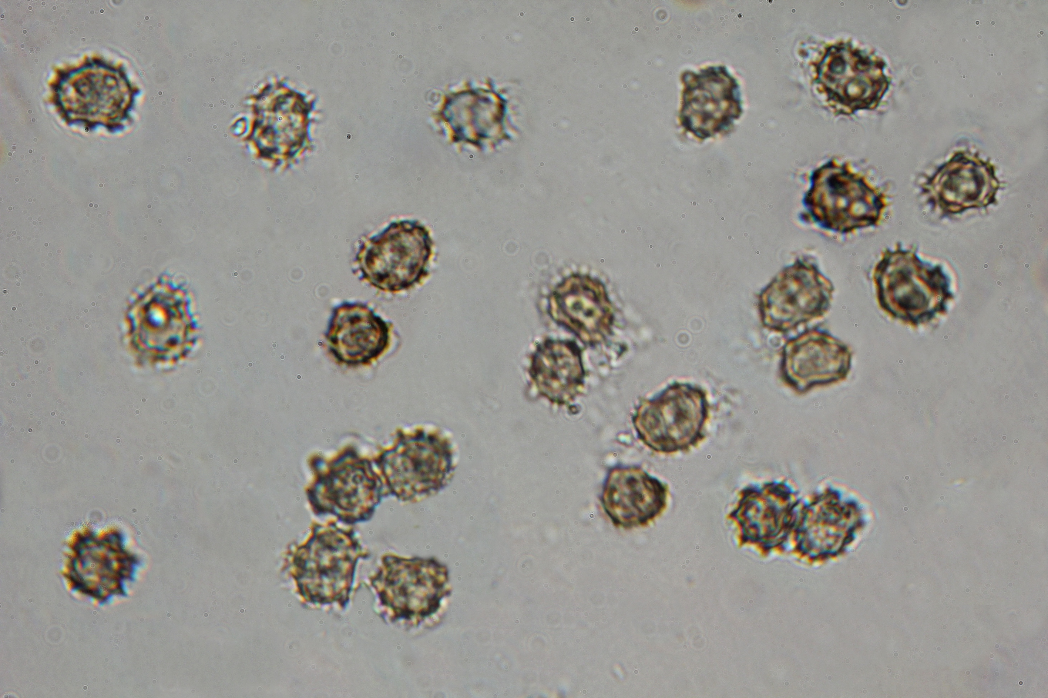 This image is Image Number 303606 at Mushroom Observer, a source for mycological images. This tag does not indicate the copyright status of the attached work. A normal copyright tag is still required. See Commons:Licensing for more information.